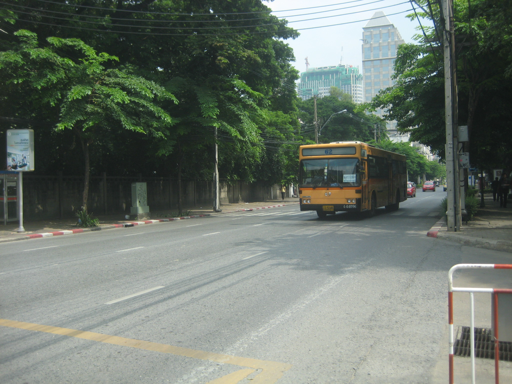 Thanon Witthayu (Wireless Road), Bangkok, Thailand.